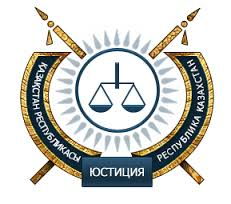 Emblem of the Ministry of Justice of the Republic of Kazakhstan.